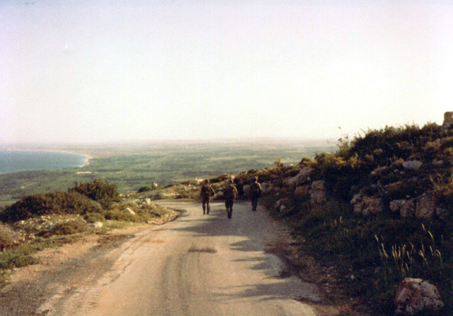 IDF military patrol near Ras biada פתיחת ציר בכביש היורד משקיף אל חרדון לראס ביאדה. באופק רואים את הלשון של צור. (1986)